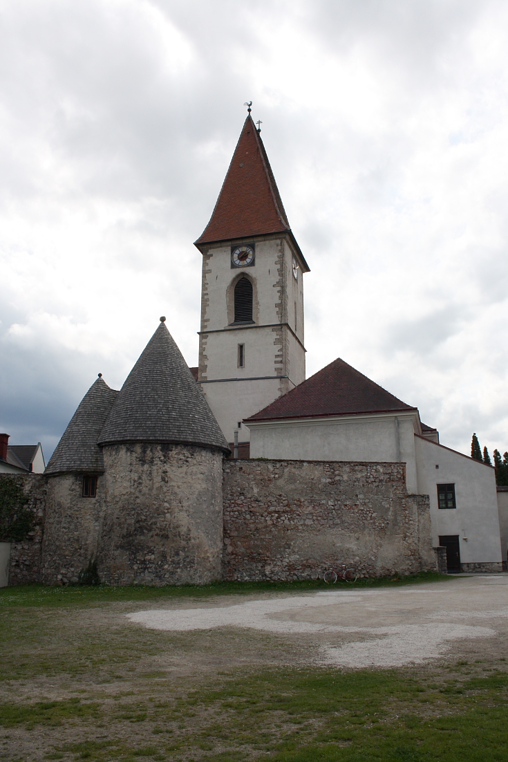 Ossuary and parish church in Pottenstein, Lower Austria